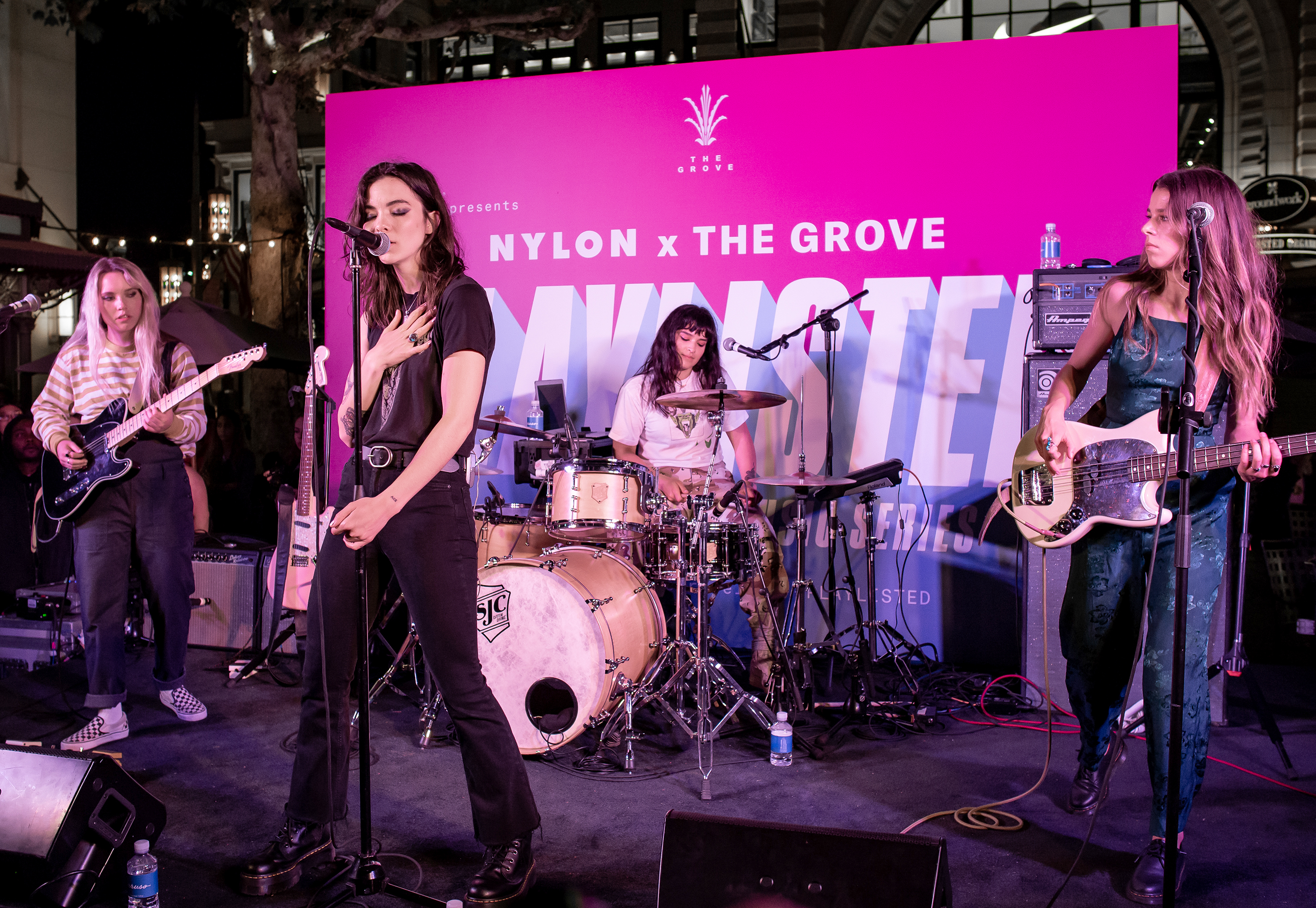 The Aces performing live at The Grove in Los Angeles, California, on Friday, May 25, 2018.